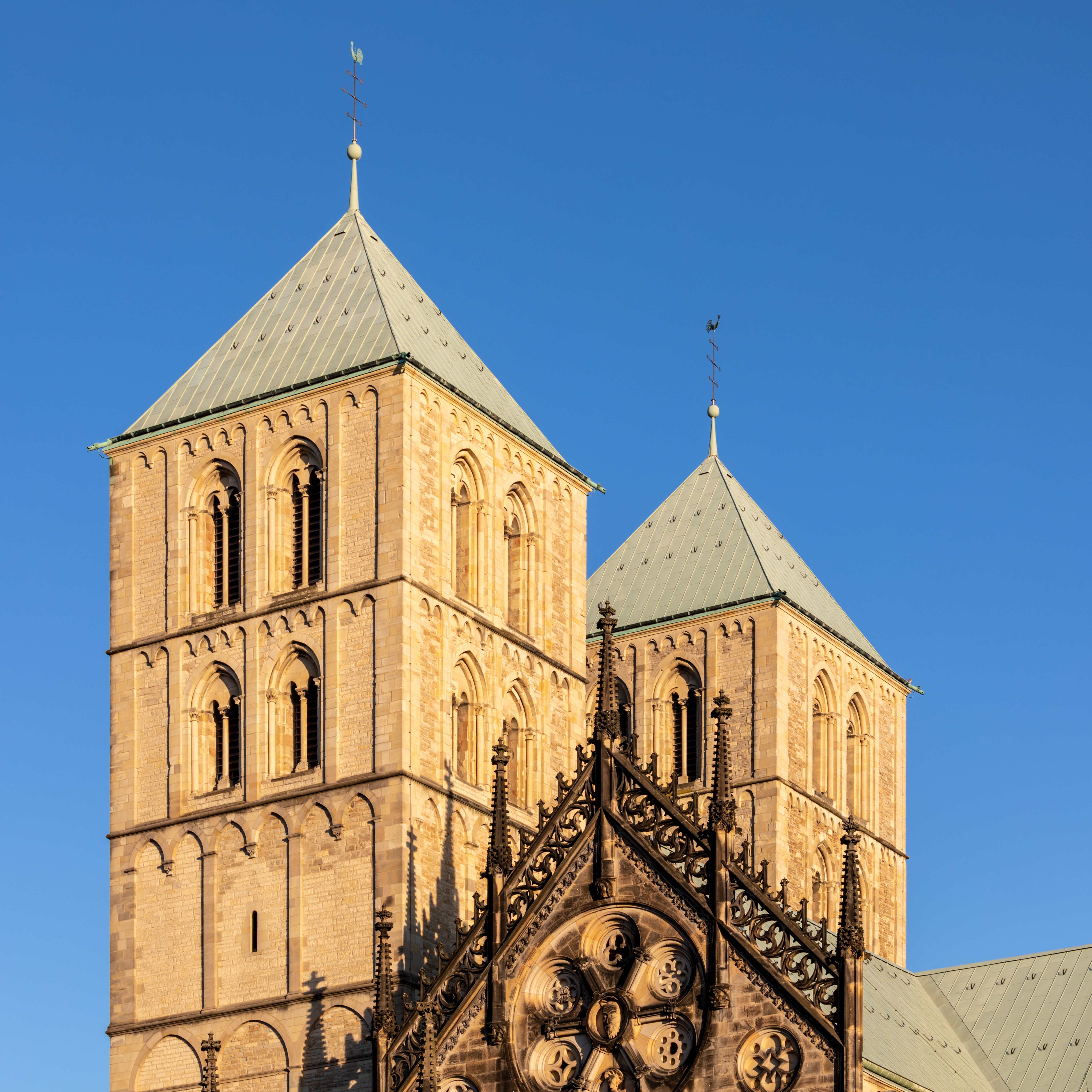 Towers of St Paul's Cathedral in Münster, North Rhine-Westphalia, Germany